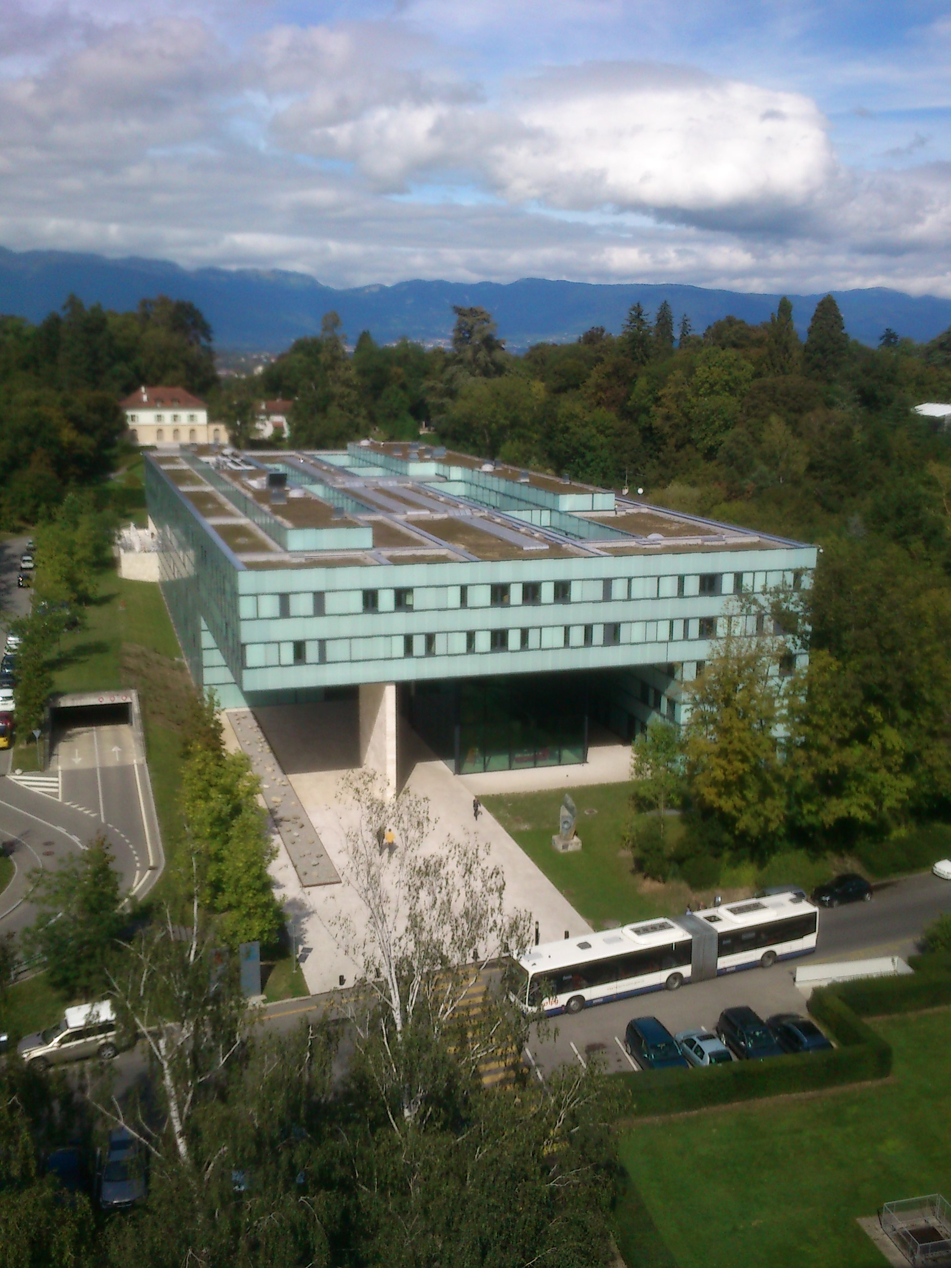 Taken from the roof of the World Health Organization, this depicts the UNAIDS building in Geneva, Switzerland, with the Jura Mountains in the background. The number 8 bus was also leaving the OMS stop.